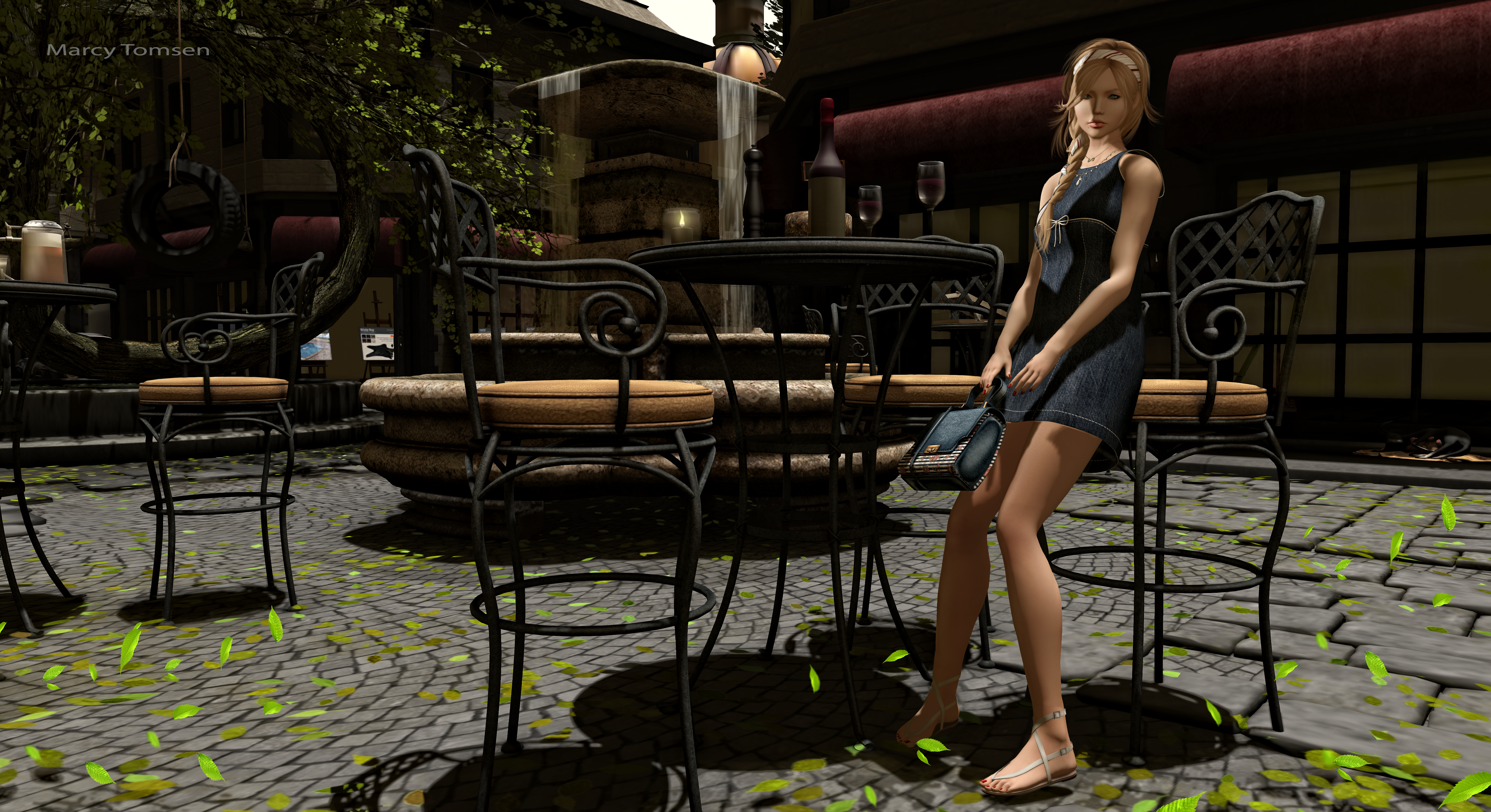 Female avatar sitting at the fountain plaza.